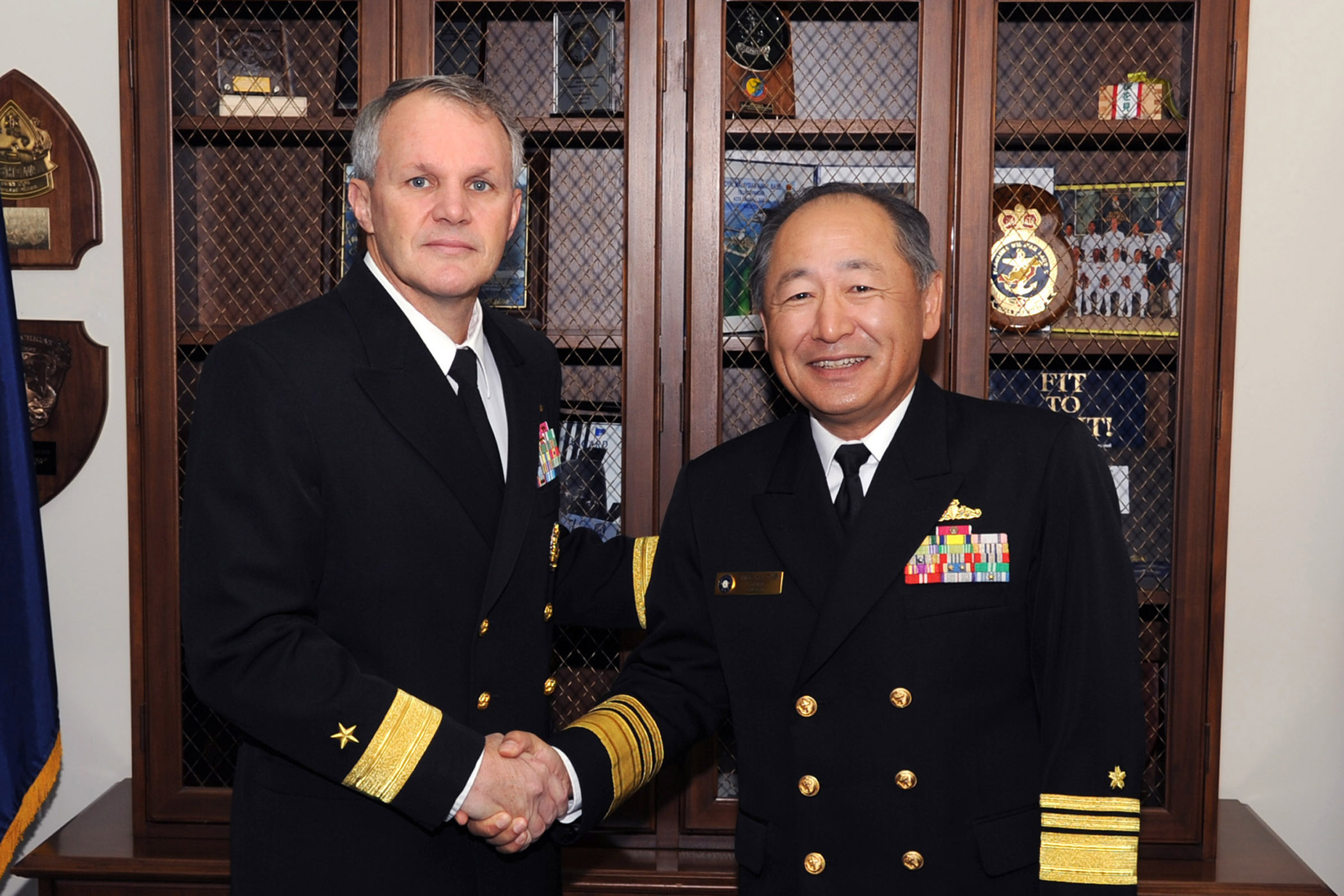 Katsutoshi Kawano, Commander in Chief of the Self Defense Fleet, met Phillip G. Sawyer, Commander of the Submarine Group 7, at the Fleet Activities Yokosuka in Yokosuka City, Kanagawa Prefecture on October 13, 2011.